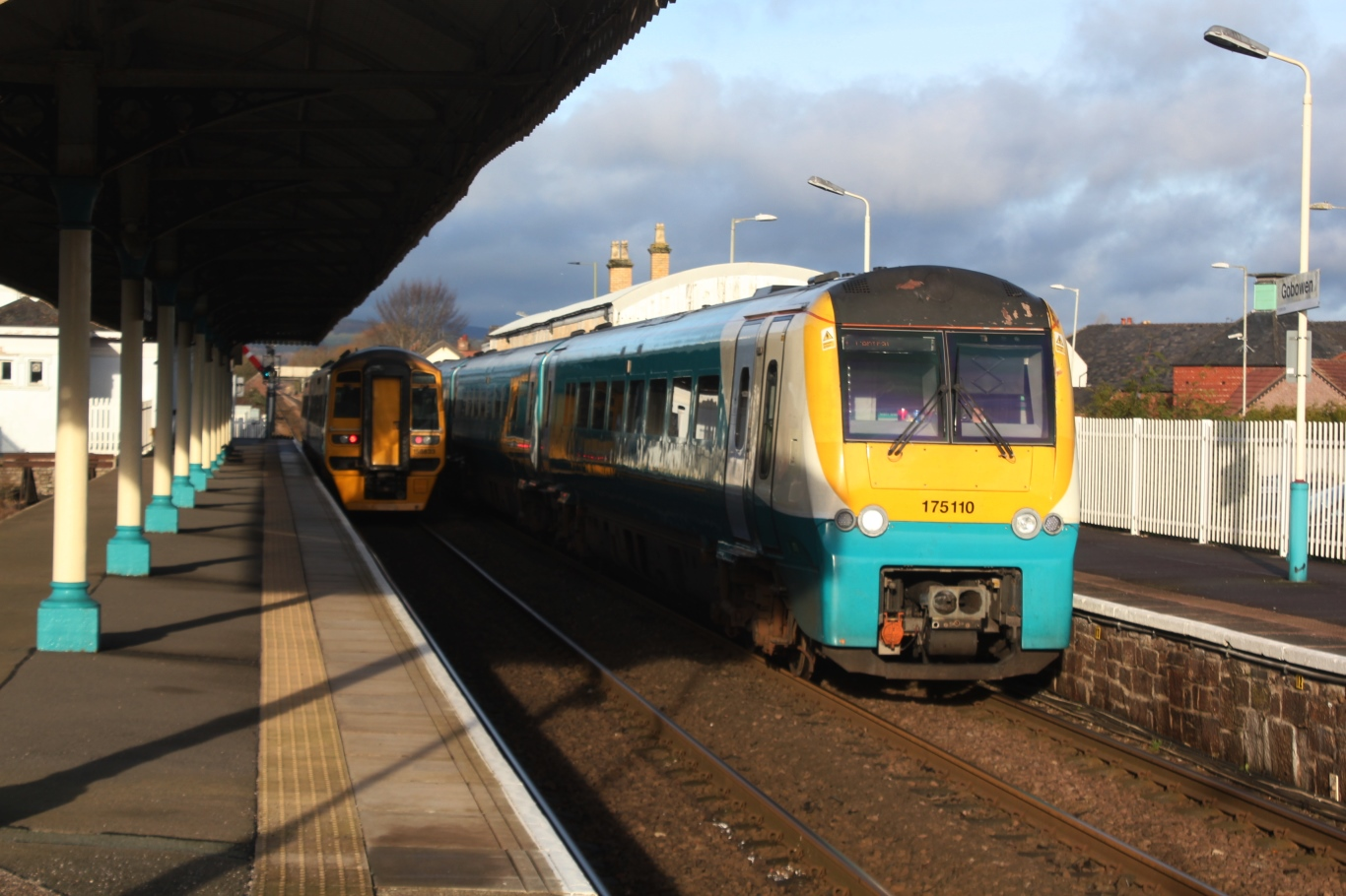 Two Transport for Wales services call at Gobowen in Shropsihre. 175110 (right) is working from Holyhead to Cardiff while 158833 (left) is heading to Holyhead from Birmingham.